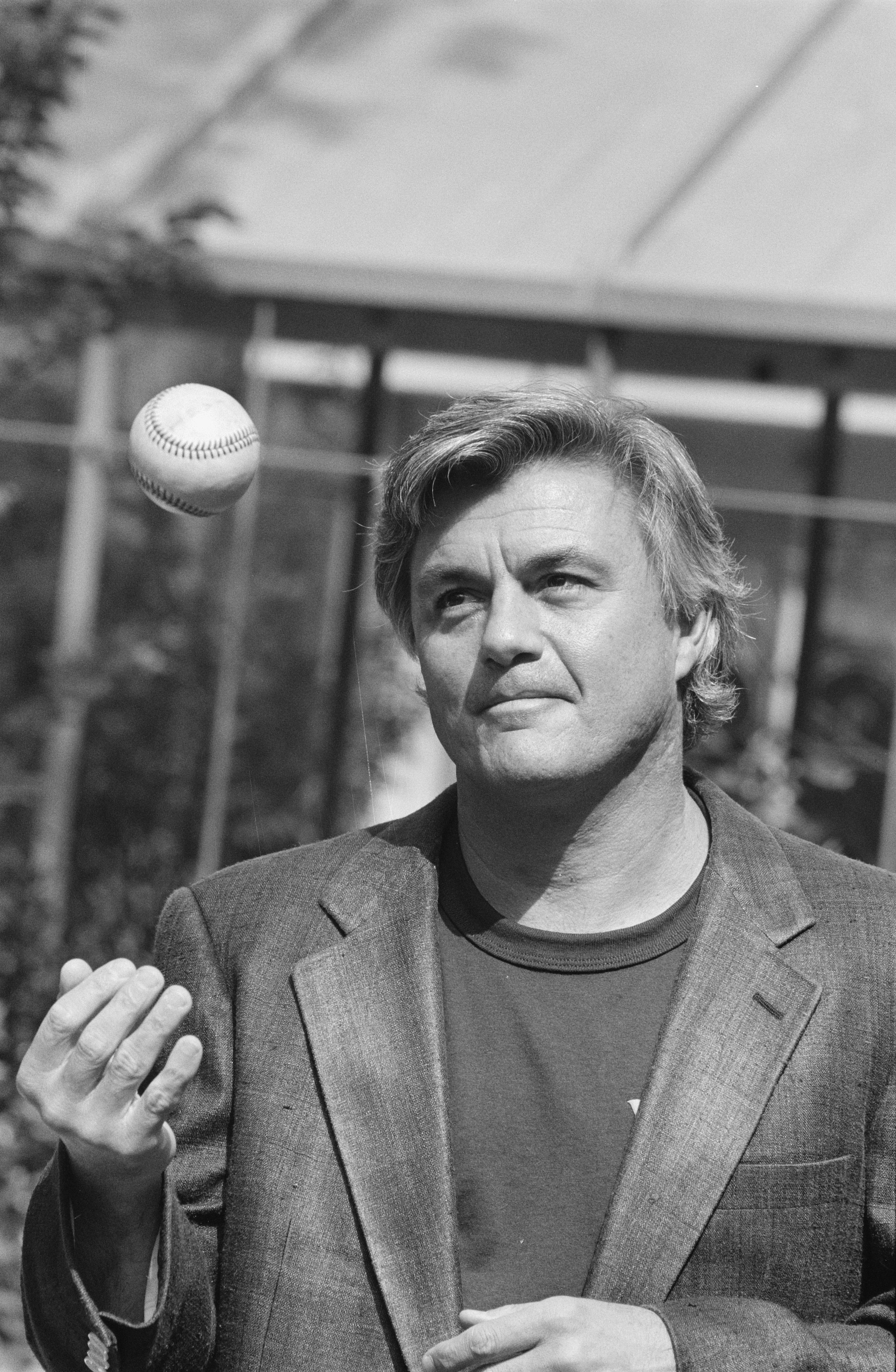 John Irving in the Netherlands (2 May 1989)